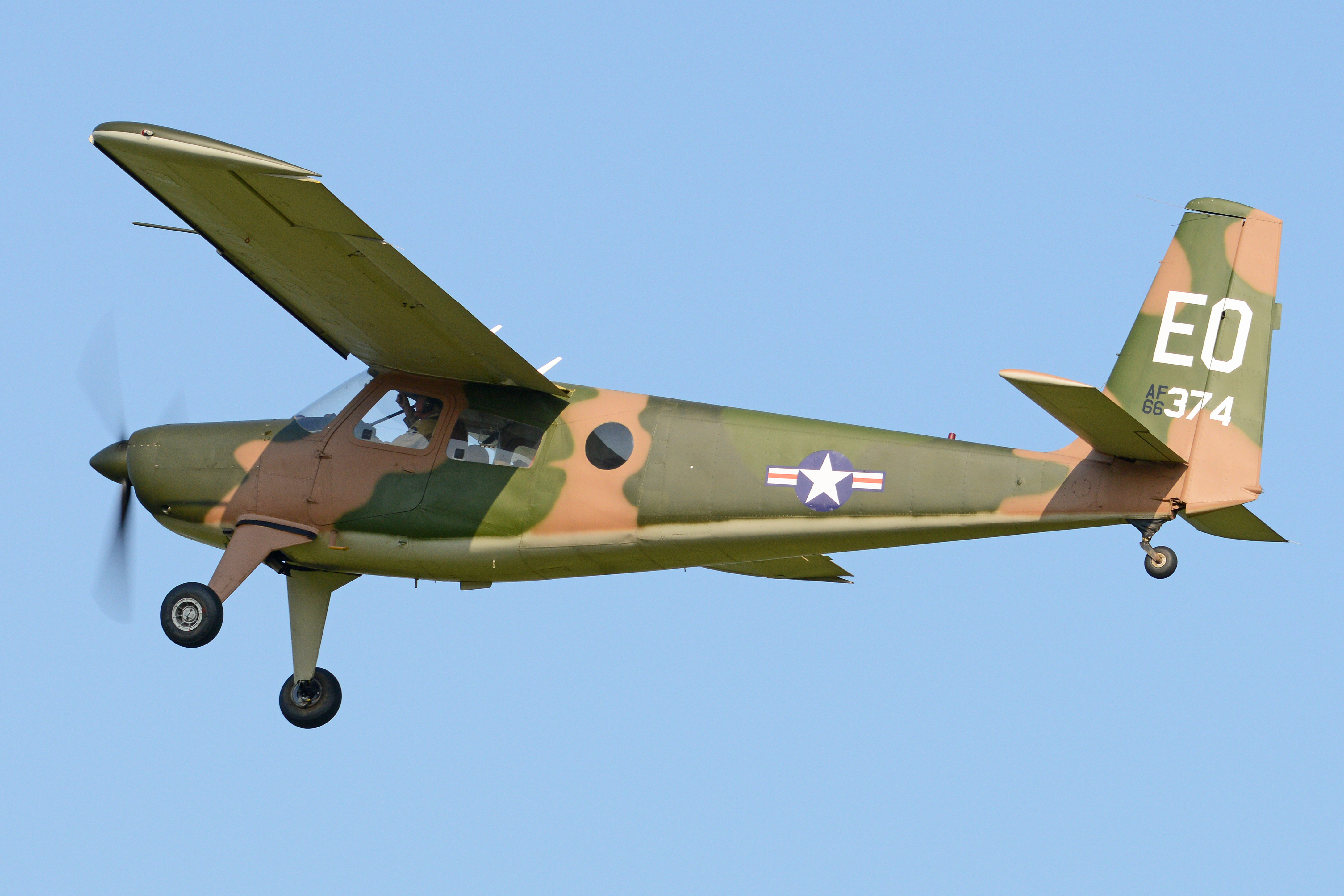 c/n 1288. Built 1968. A very rare beast in Europe, and certainly the only one flying in the UK. A purely machine, it is now painted in gorgeous SEA camo and represents U-10D 66-14374 (which was c/n 1276). Departing after visiting the ‘Fly Navy’ airshow, Old Warden, Bedfordshire. 5-6-2016